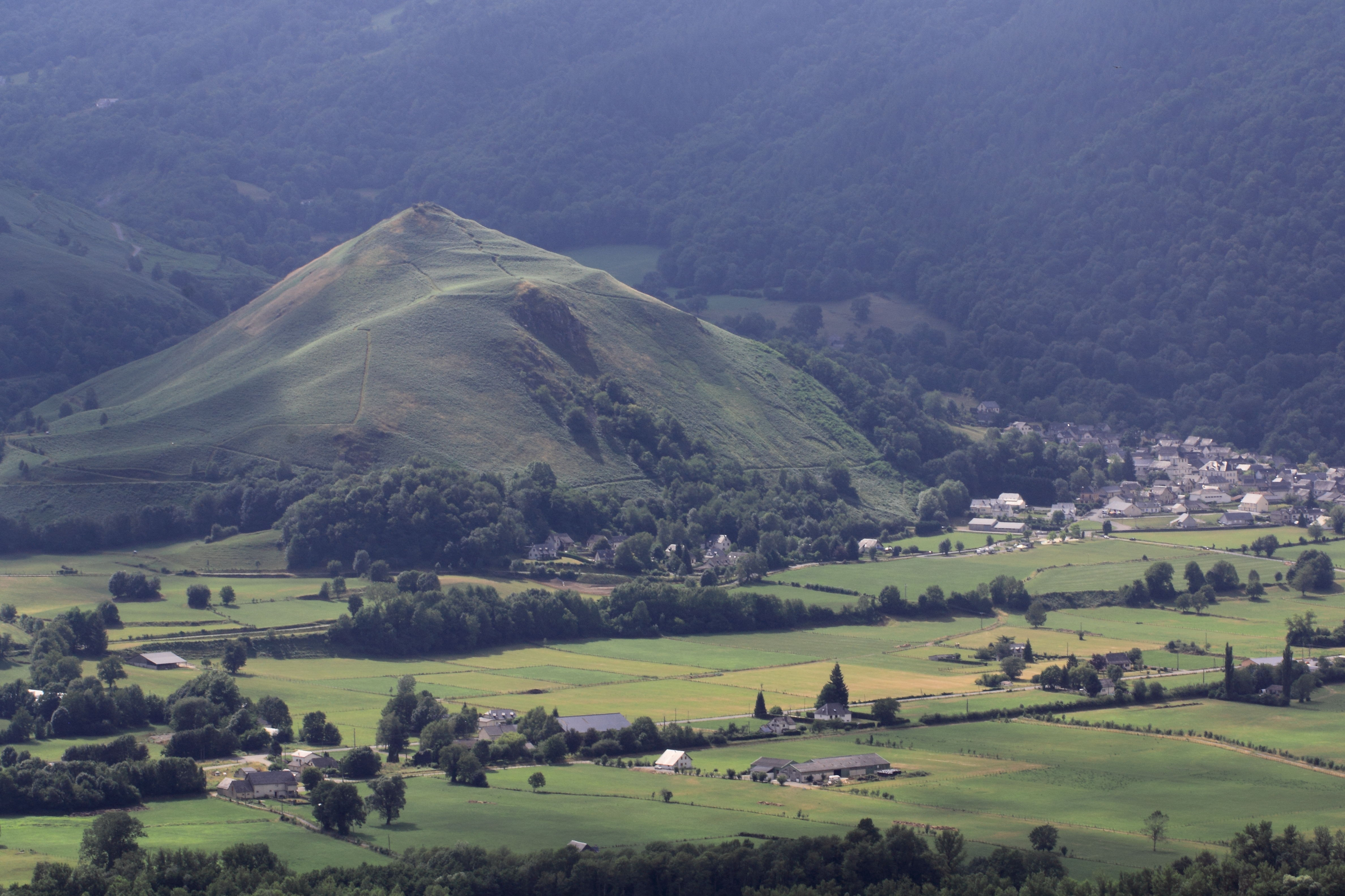 The Poey is a volcanic hill dominating the pyrenean commune of Accous